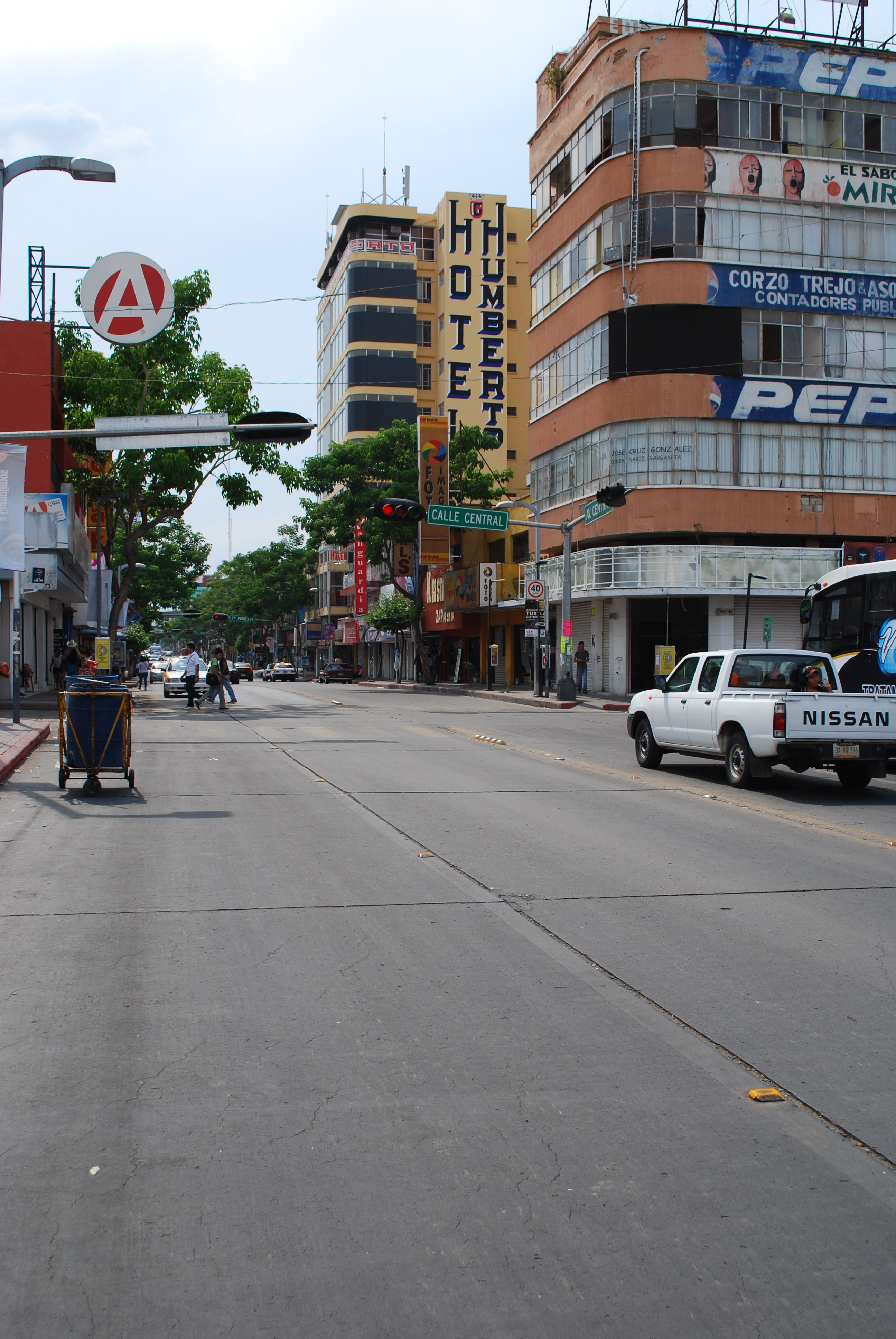 Central Poniente near San Marcos cathedral in Tuxtla Gutierrez, Chiapas, Mexico